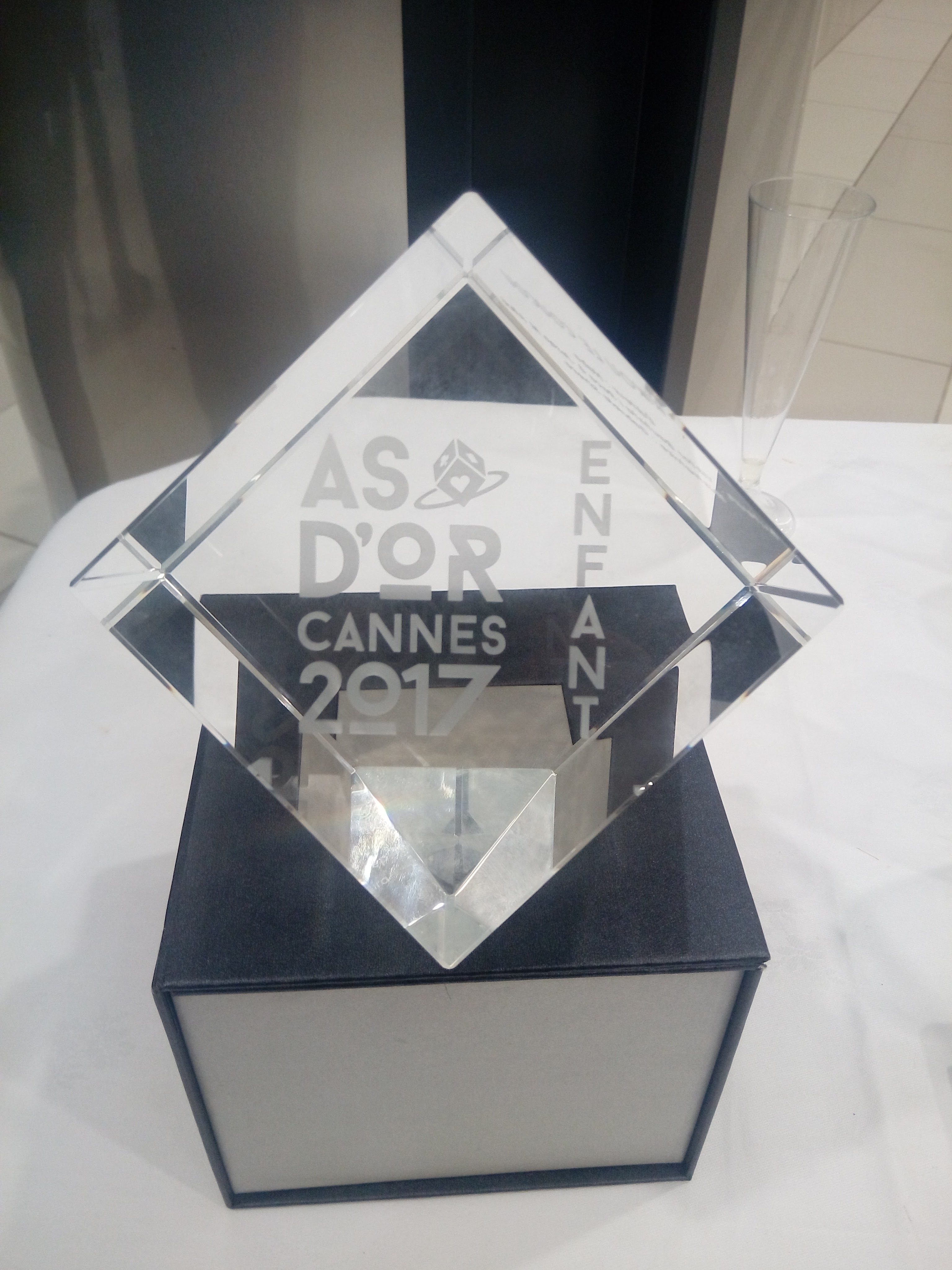 As d'Or Enfant 2017, trophy